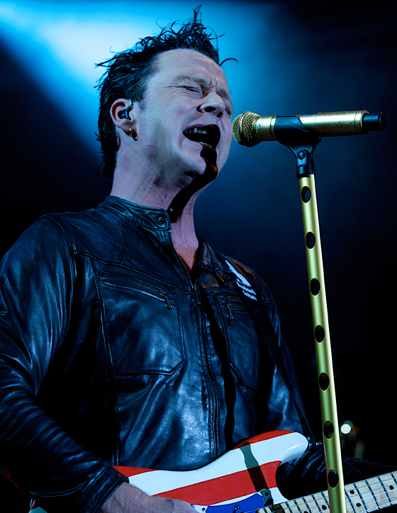 Danish singer-songwriter Thomas Helmig, performing at Skovdalen in Aalborg, Denmark.